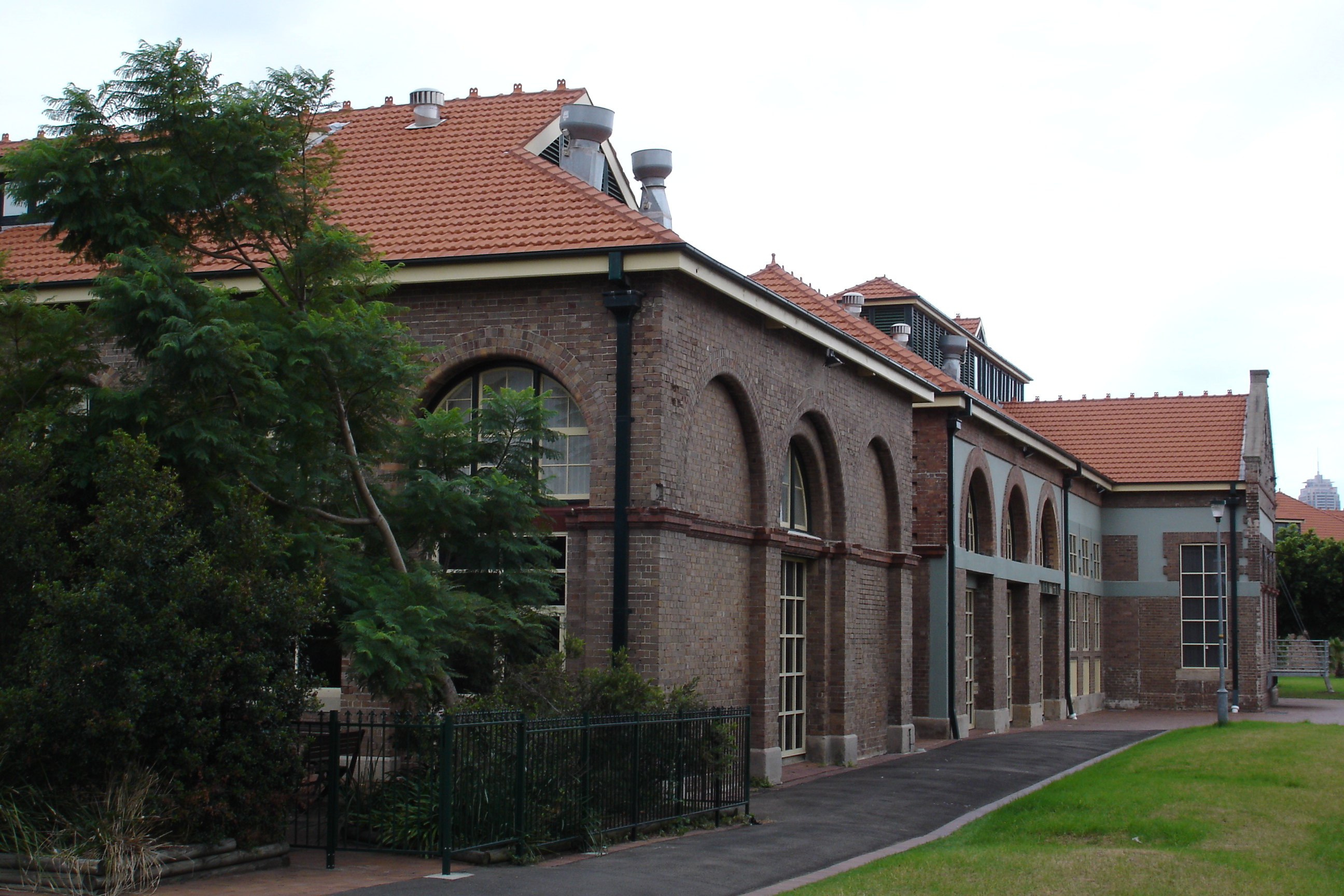 Lever Brothers Site (Former), Balmain, New South Wales, Australia. Taken by user Amitch on 20/3/06.